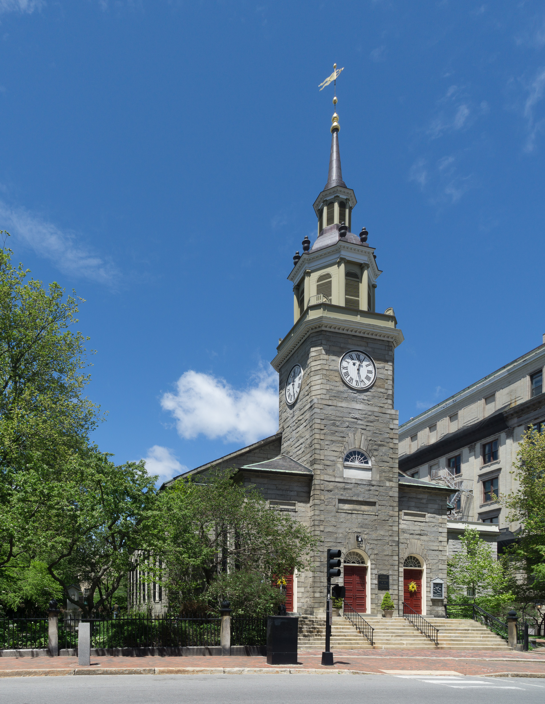 First Parish Church (Portland, Maine). Taken 2017.